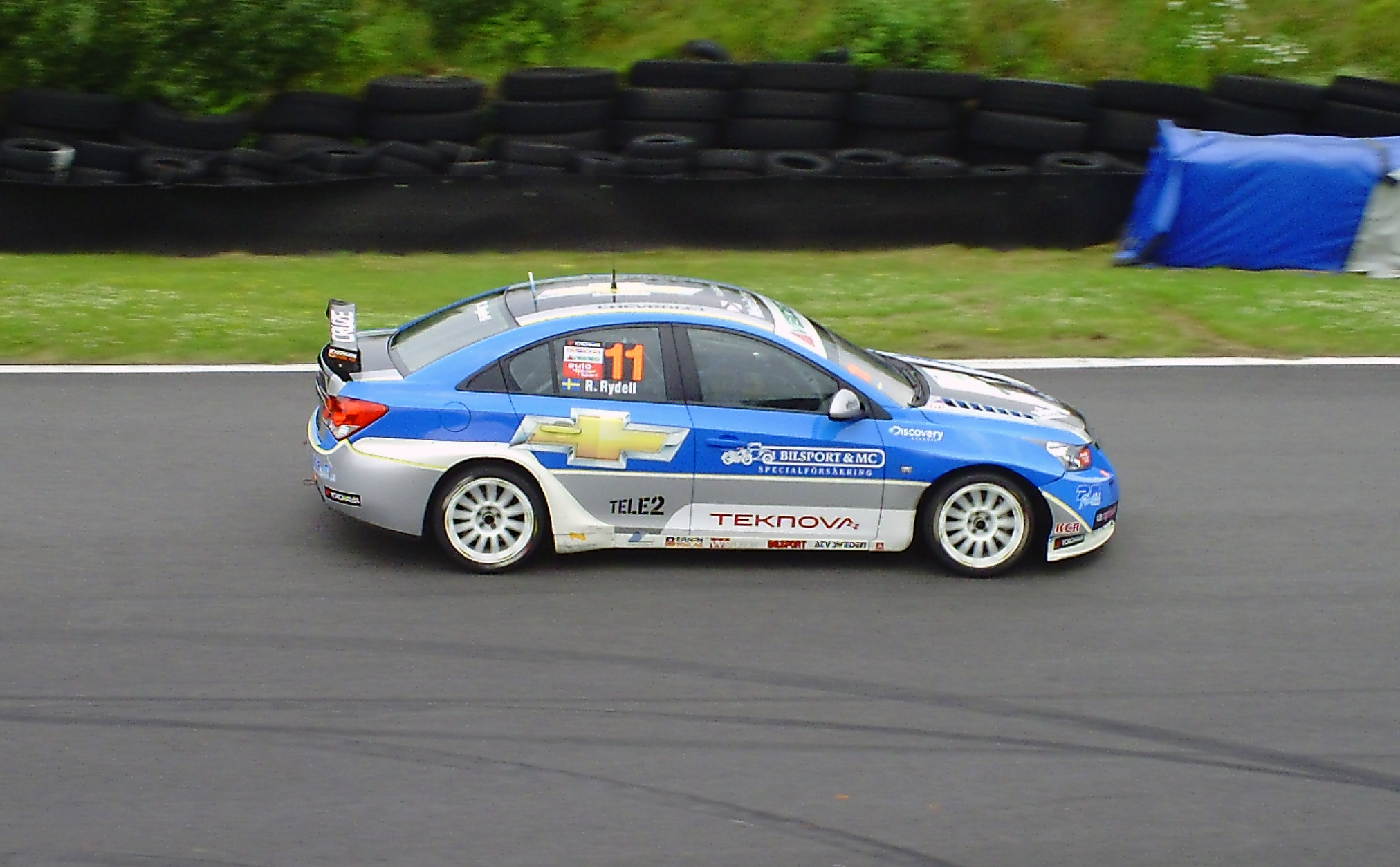 Rickard Rydell driving his Chevrolet Cruze LT for Chevrolet Motorsport Sweden (NIKA Racing) at Falkenbergs Motorbana, during the fifth round of the 2011 Scandinavian Touring Car Championship (STCC) season.